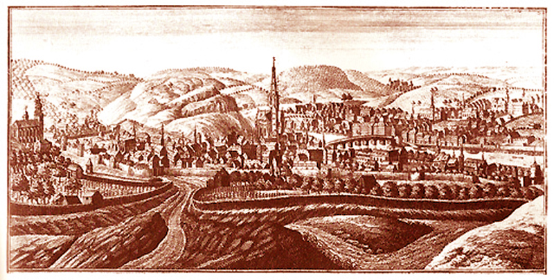 Remacle le Loup 1740